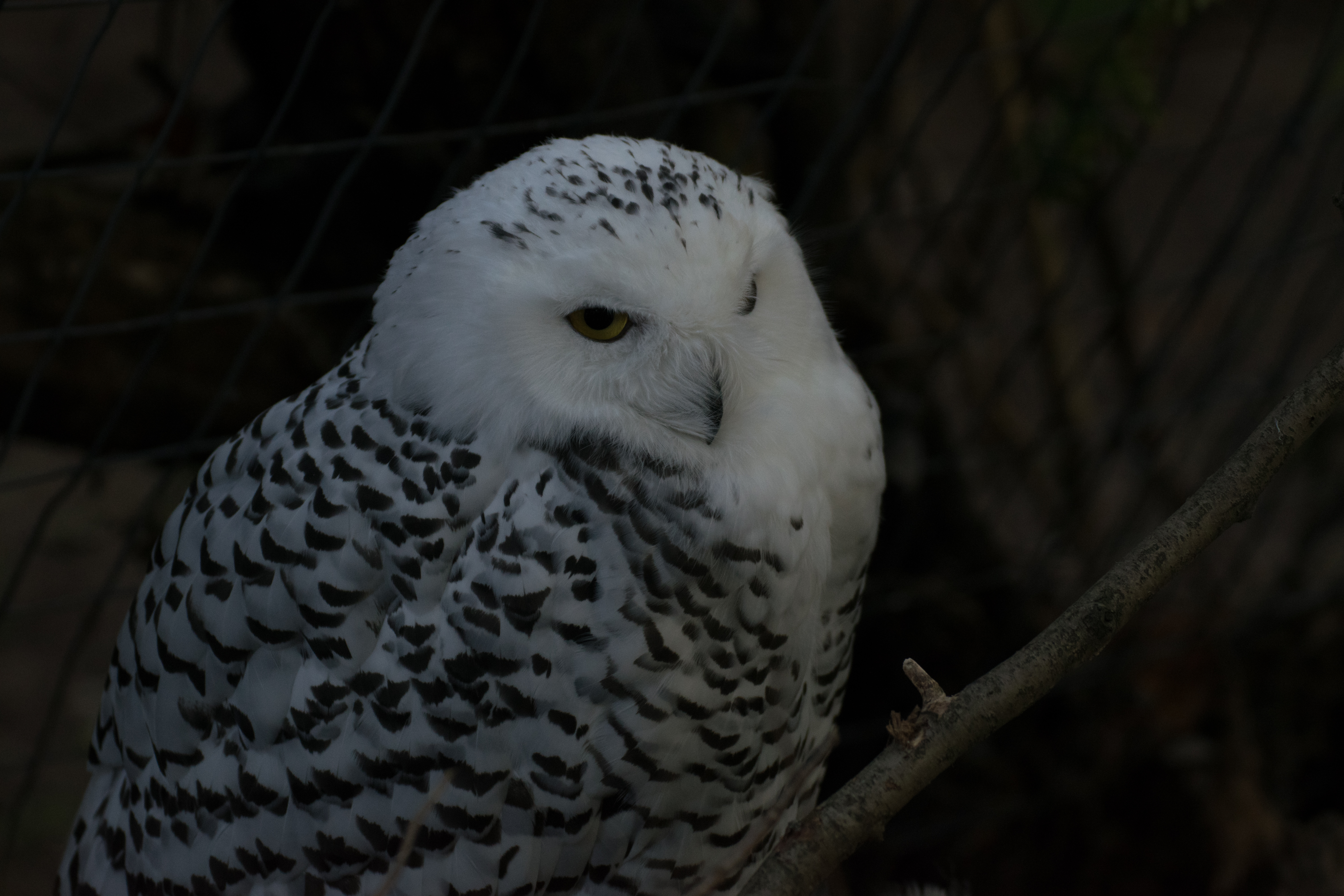 A snowy owl at the Wild Zoo of St-Félicien (Quebec, Canada).